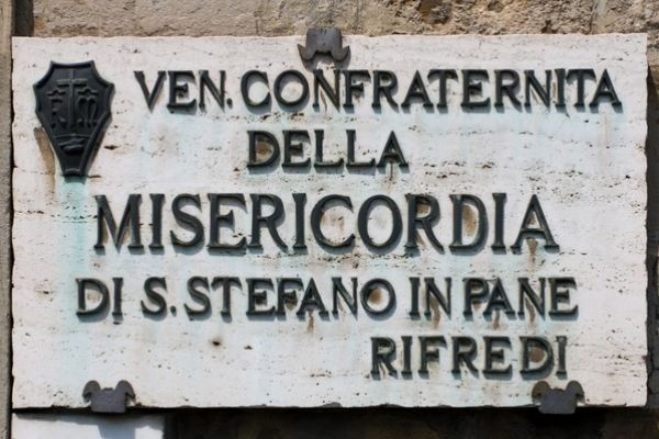 titolo